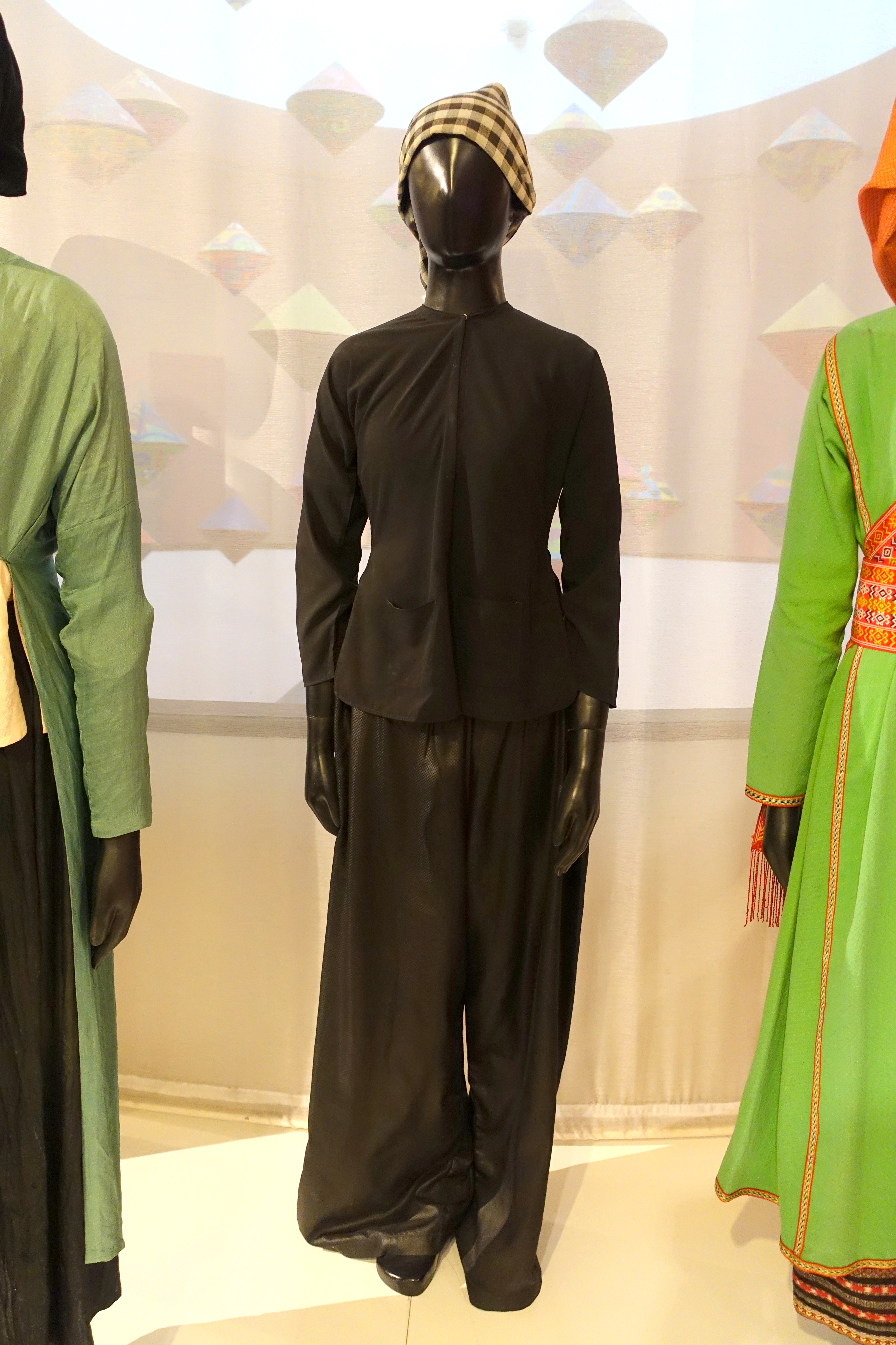 Exhibit in the Vietnamese Women's Museum, Hanoi, Vietnam.